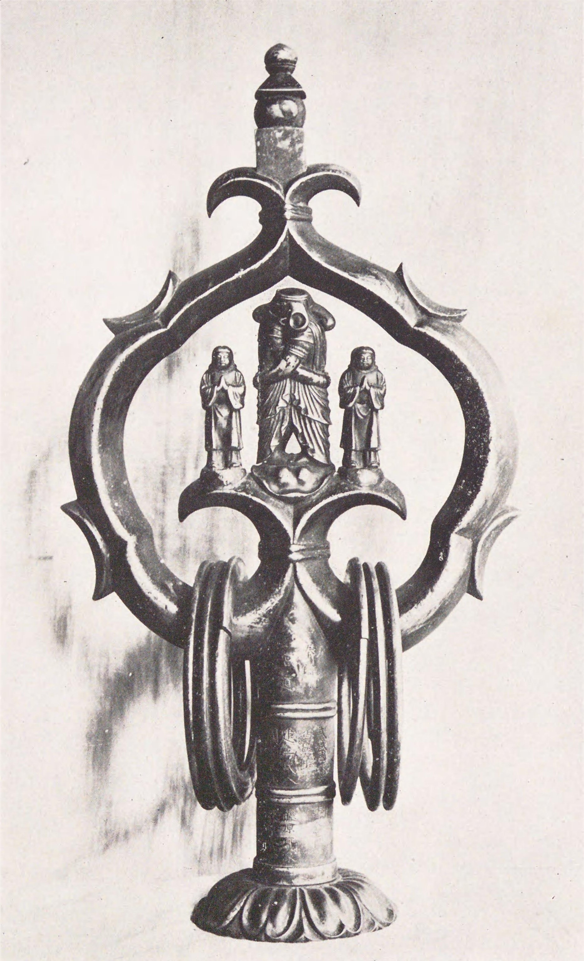 The bronze head of shakujo (khakkhara) with Kangiten and two made in 1197 (Important Cultural Property), the collection of Kangiin, Kumagaya, Saitama prefecture, Japan.